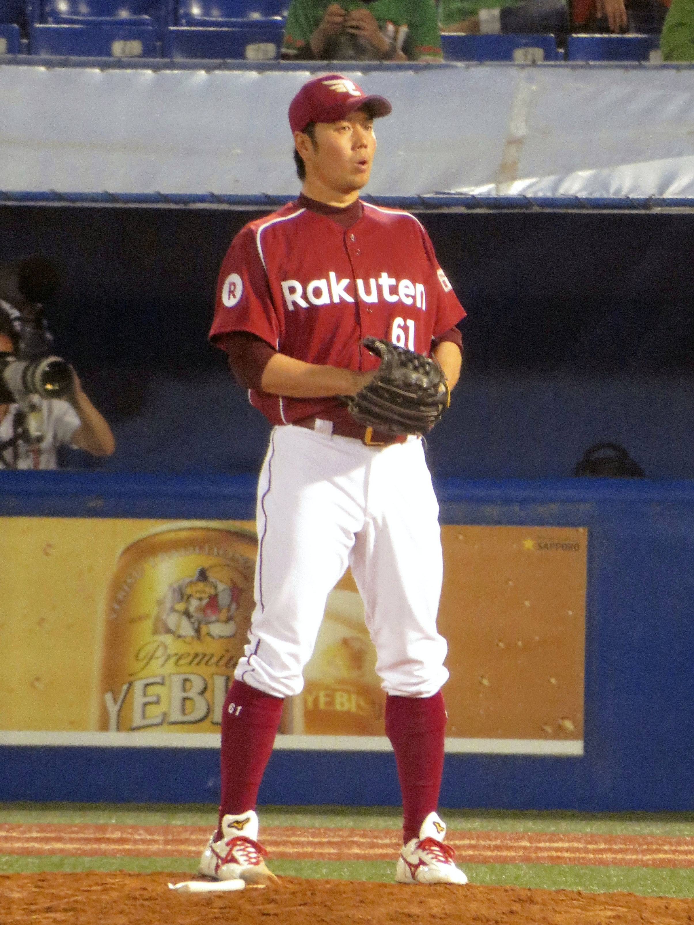 Keiji Uezono, pitcher of the Tohoku Rakuten Golden Eagles, at Meiji Jingu Stadium.